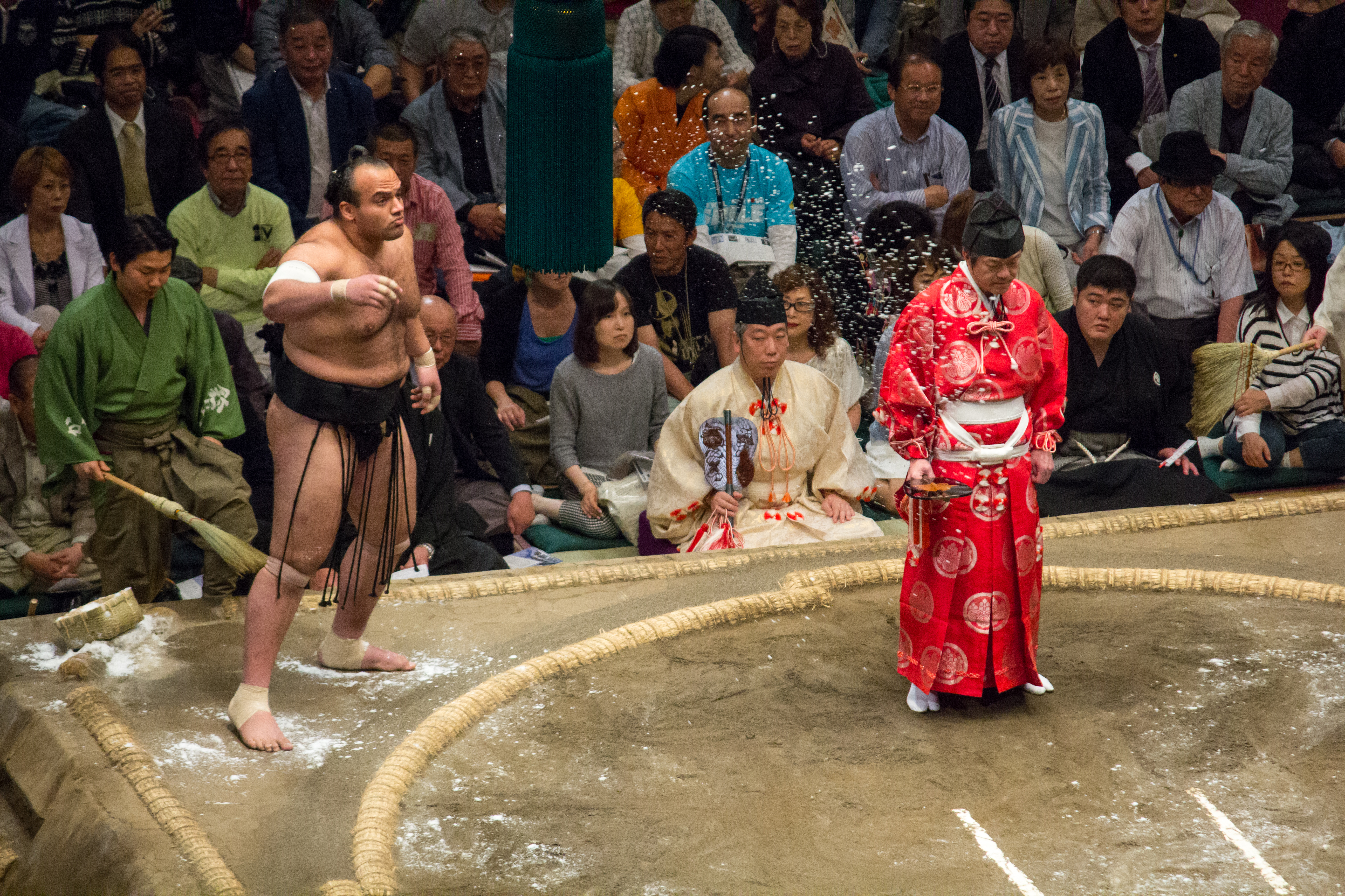 Ōsunaarashi Kintarō at the 2014 May Grand Sumo Tournament in Tokyo, Japan. Canon EOS 60D + EF-S 55-250mm F4-5.6 IS